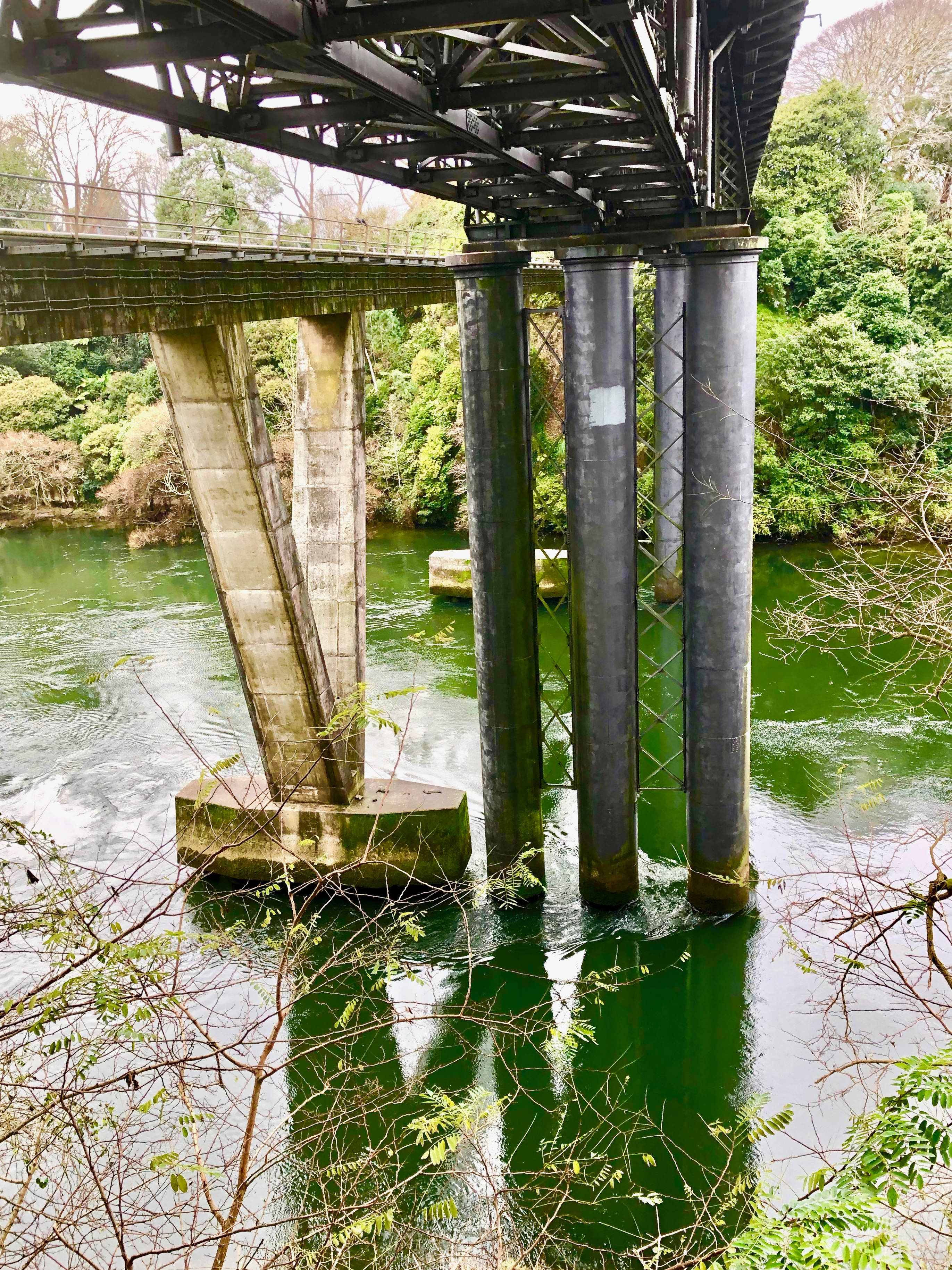 1964 rail bridge to left, 1883 former rail bridge to right